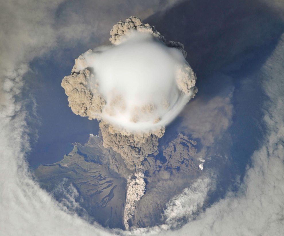 The eruption of Sarychev Peak in July 2009. The image, taken from the International Space Station, shows a pileus cloud surrounding the top of the volcano's ash cloud.